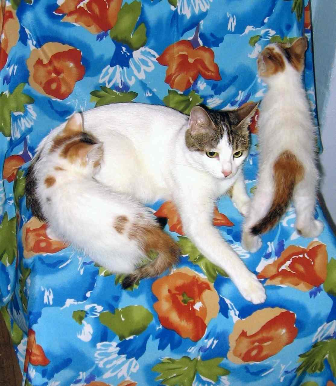 My Anatoli Cat Astghik with her 2nd litter